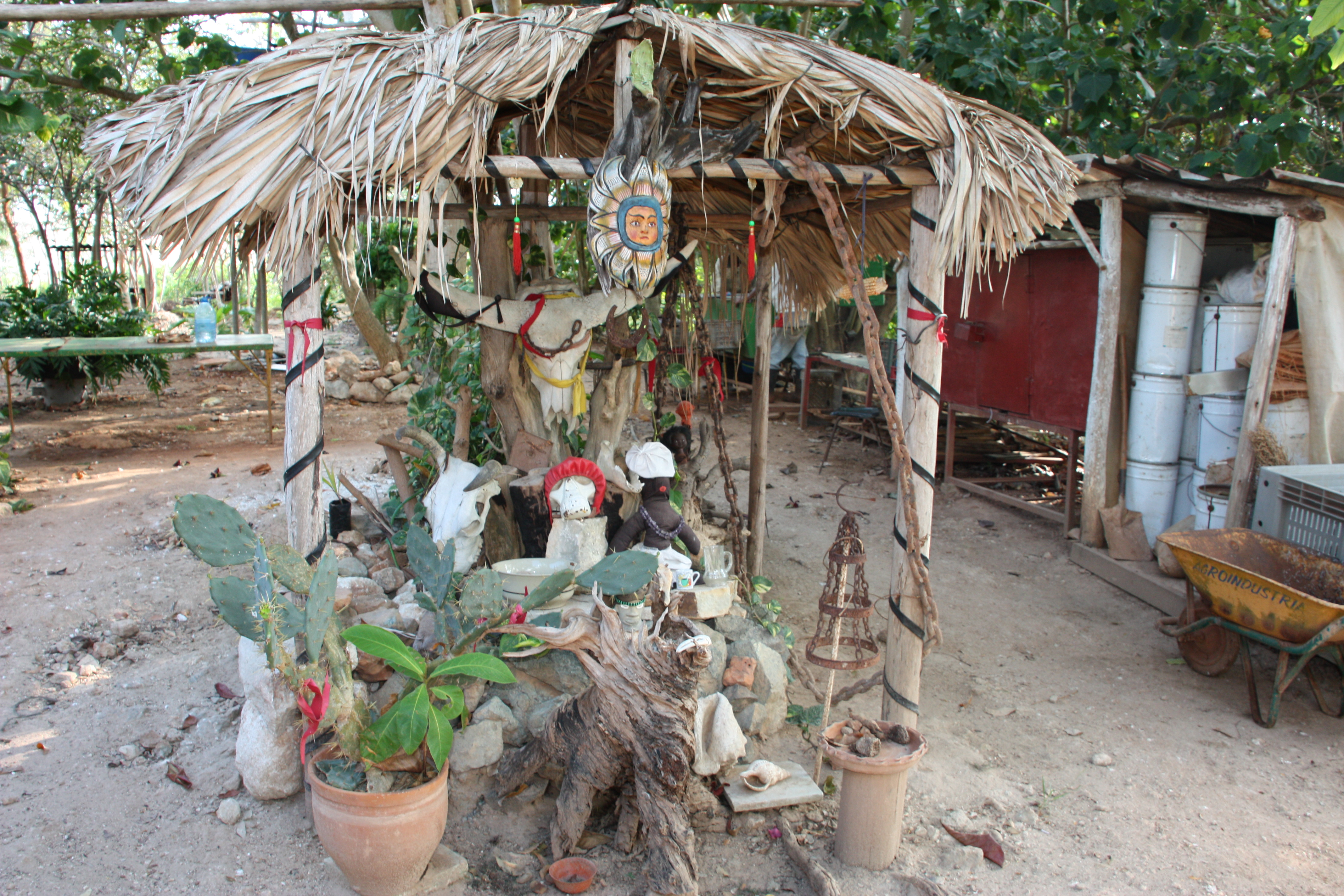 Santería altar in Cuba.